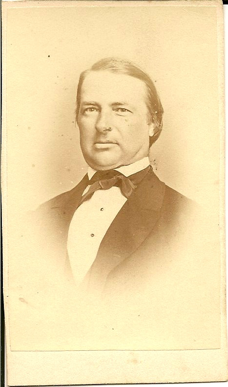 Swedish politician from late nineteenth century